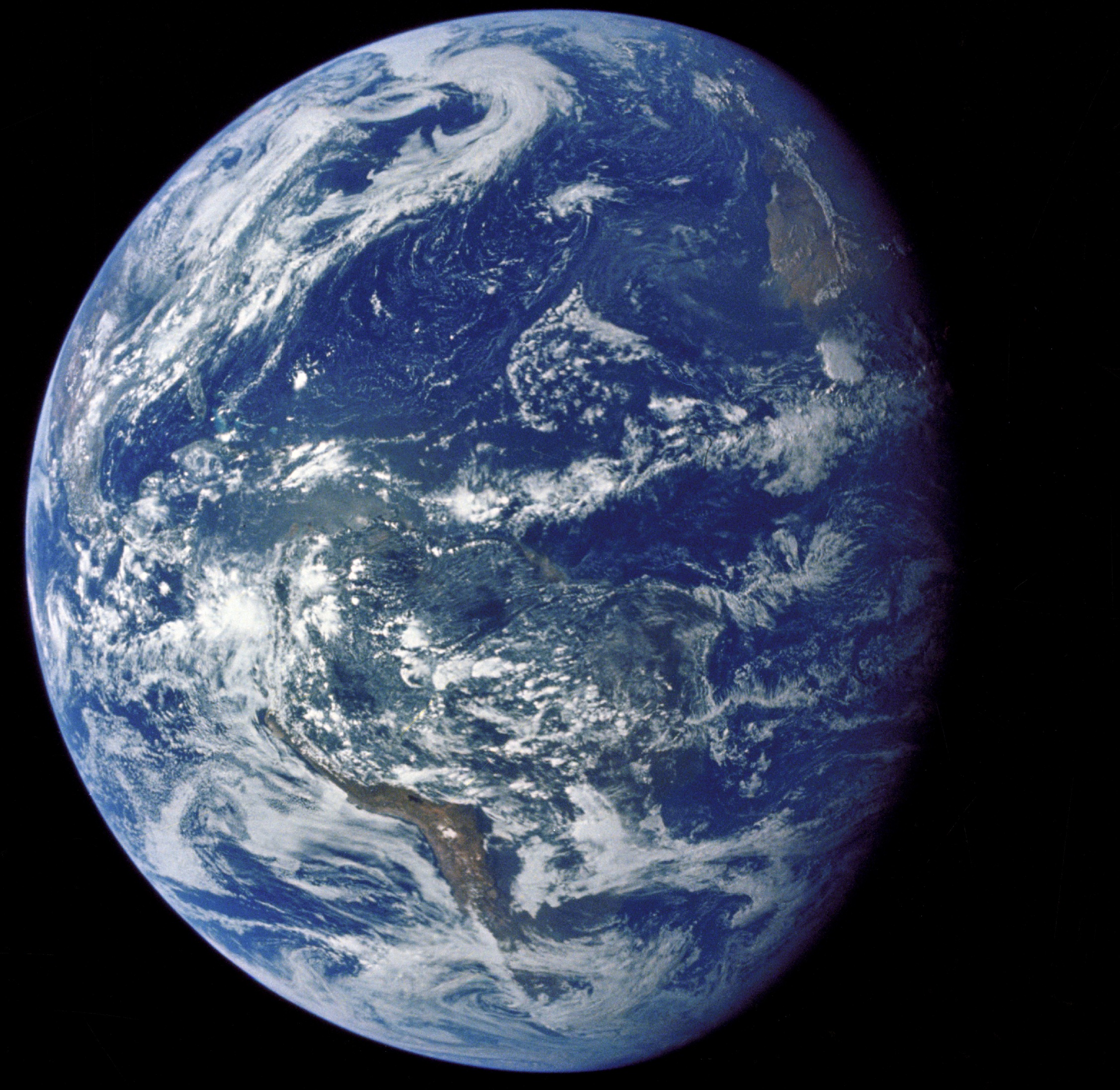 The view of Earth taken during the Translunar Coast from the distance of about 25.000 to 30.000 nautical miles from Earth. South America is to the left. Central America is in the upper center. The gulf of Mexico and Florida is seen to the lower right of Central America. North America is in the upper right. The north-west part of Africa is seen in the lower right.